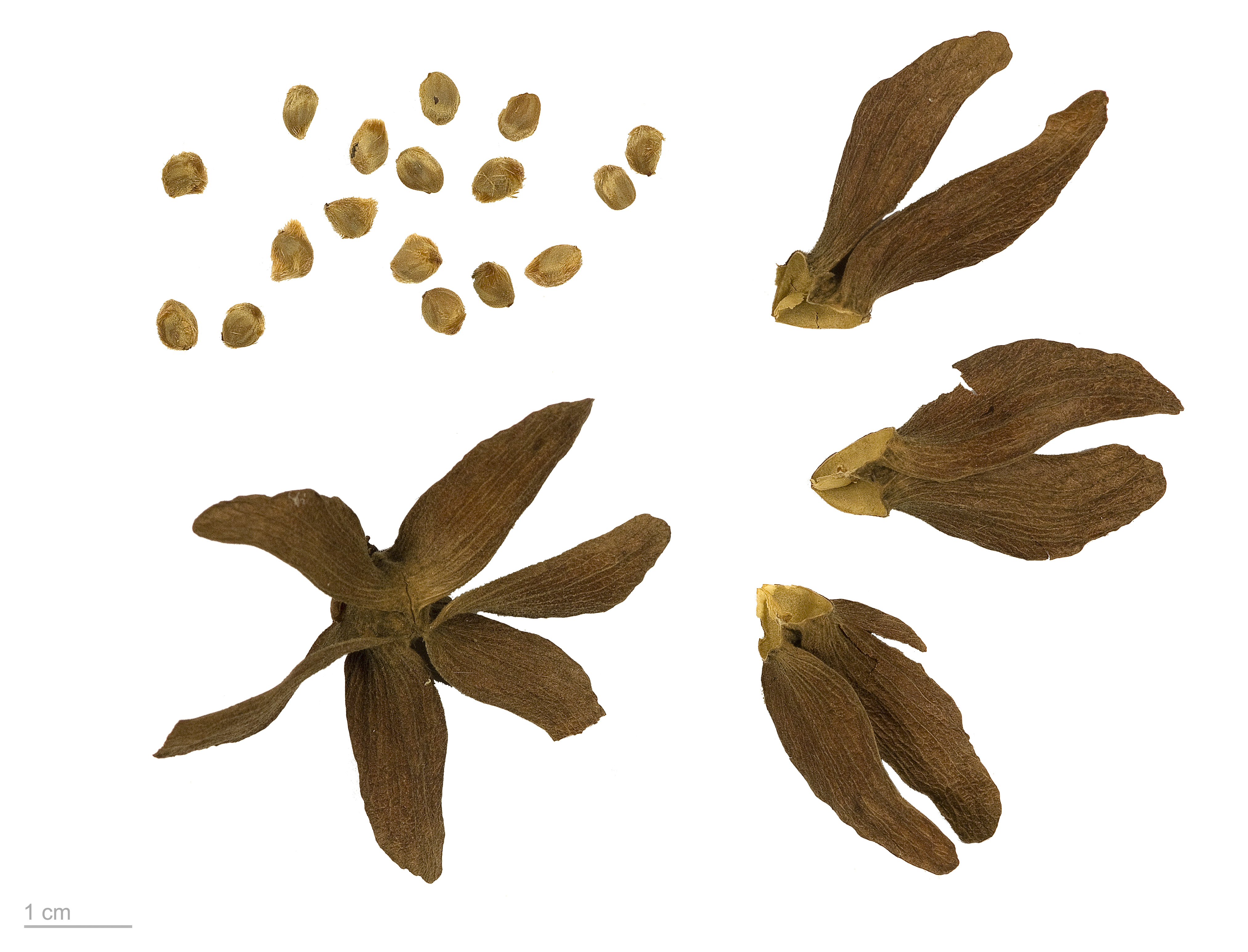 Trincomalee wood, fruits and seeds